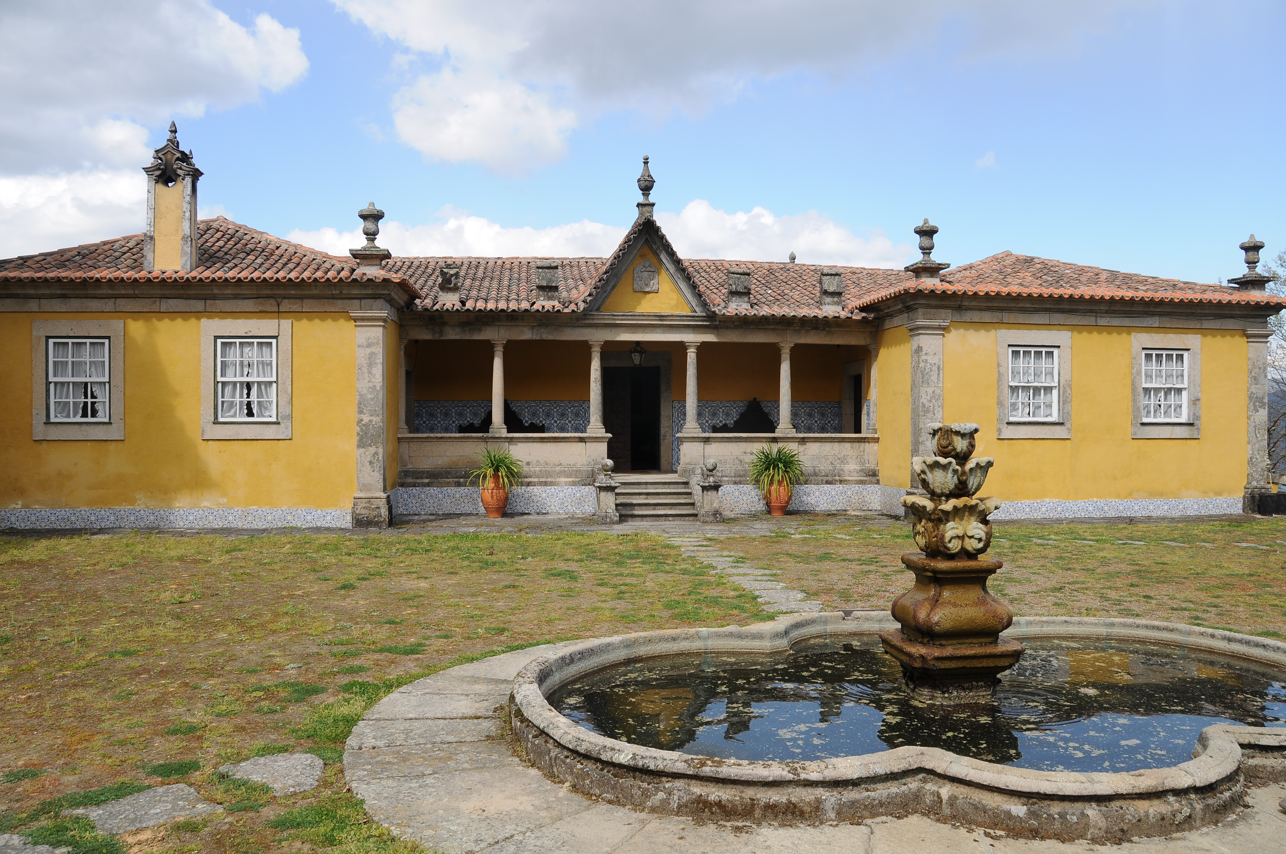 Casa do Barreiro in Gemieira, Viana do Castelo, Portugal.